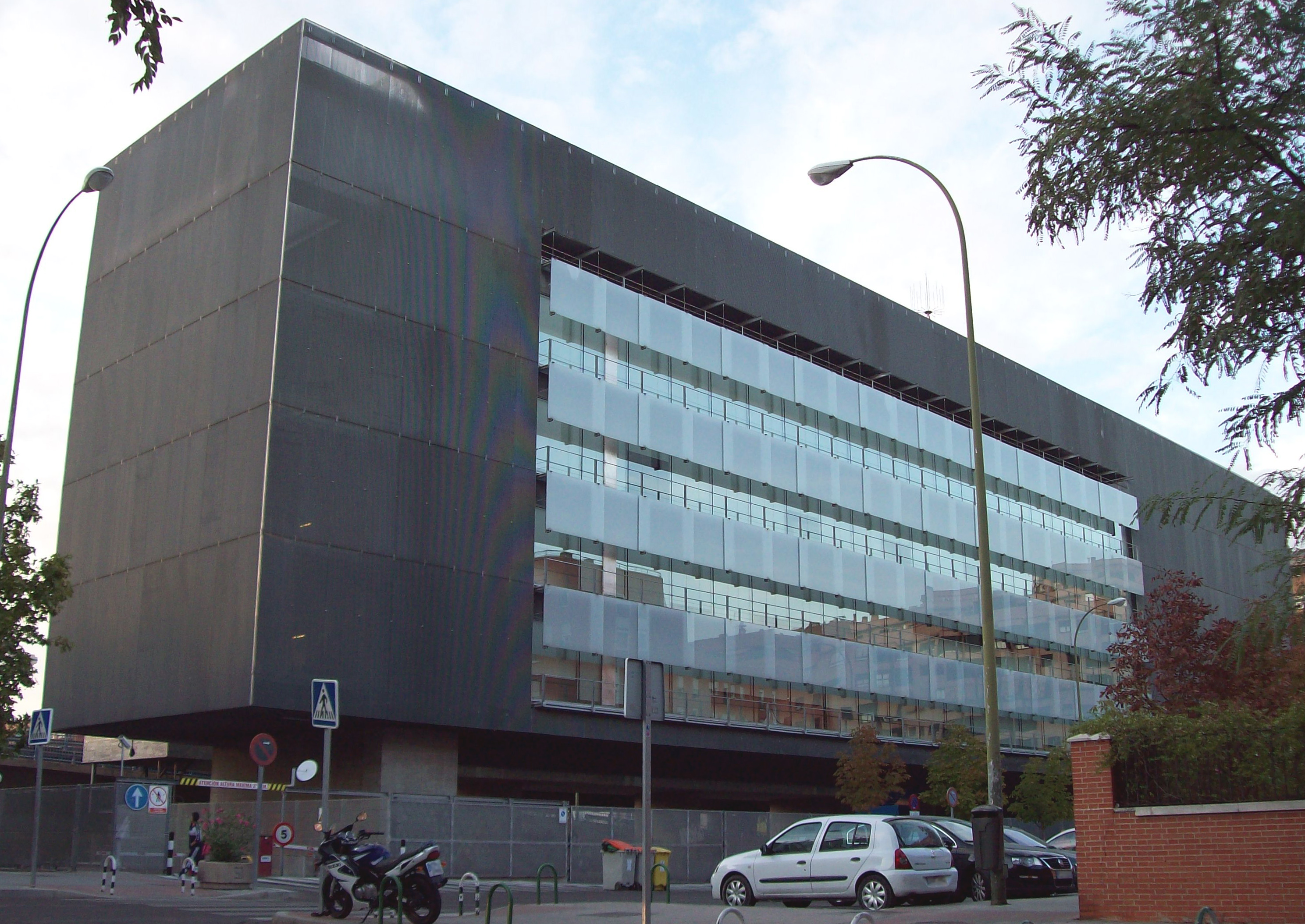 View of the headquarters of E.M.T. Madrid (Spain) from the south angle.